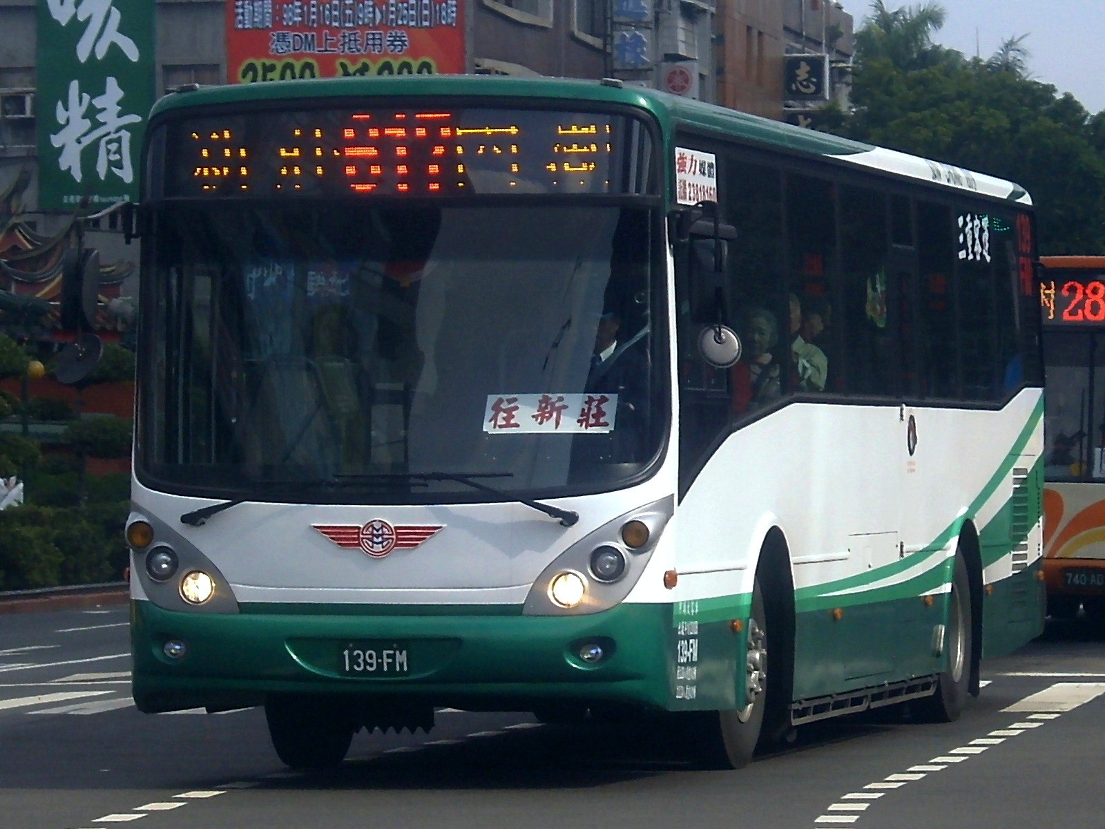 San Chung Bus - ISUZU LT134PRK.